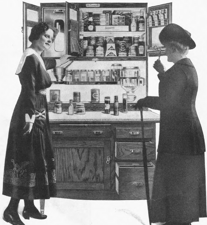 This is a crop of advertisement for McDougall Auto-Front kitchen cabinets from page 34 of the Ladies Home Journal April 1917.